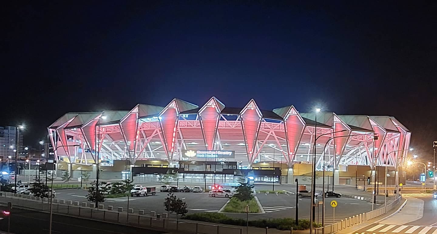 Queensland Country Bank Stadium at night from the nearby pedestrian bridge